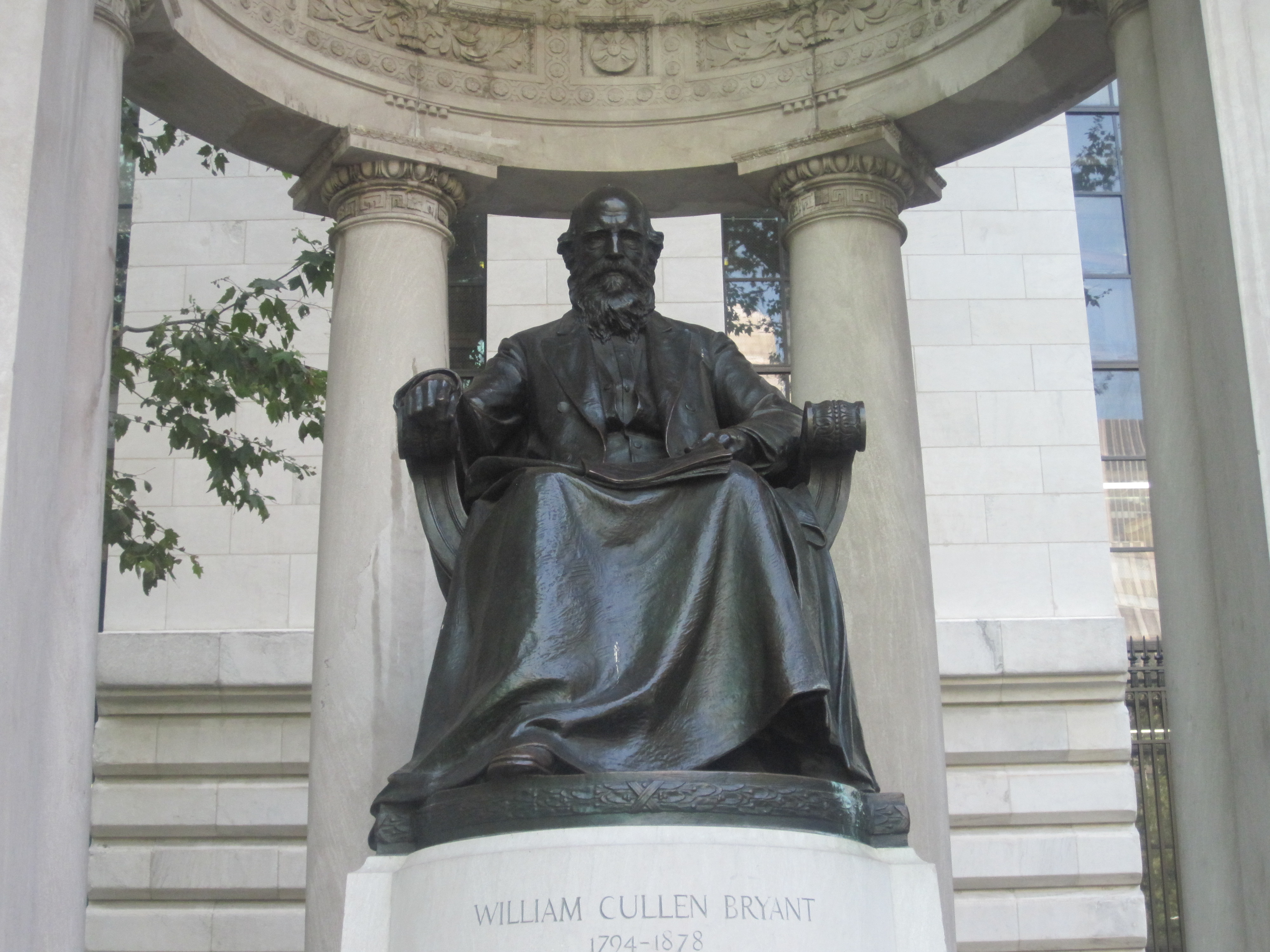 William Cullen Bryant statue in Bryant Park, New York City